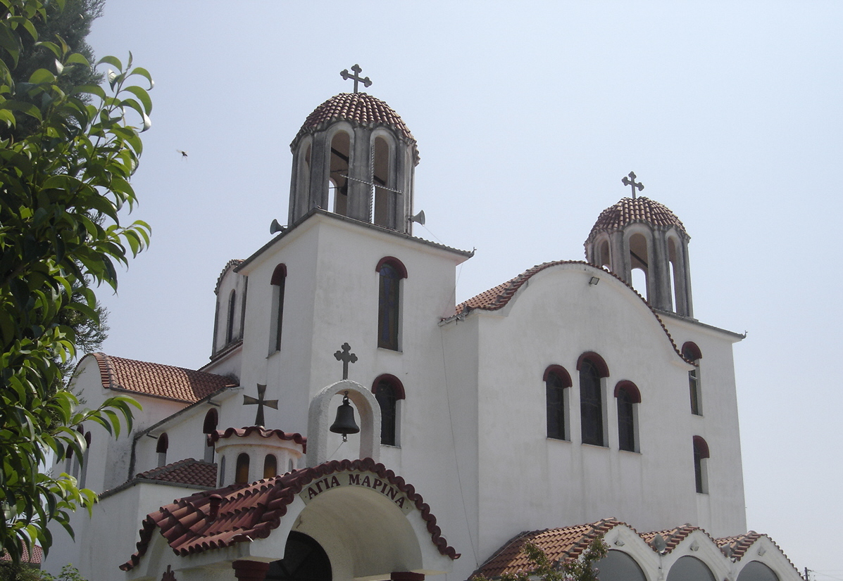 A church in Kallithea, Pieria.